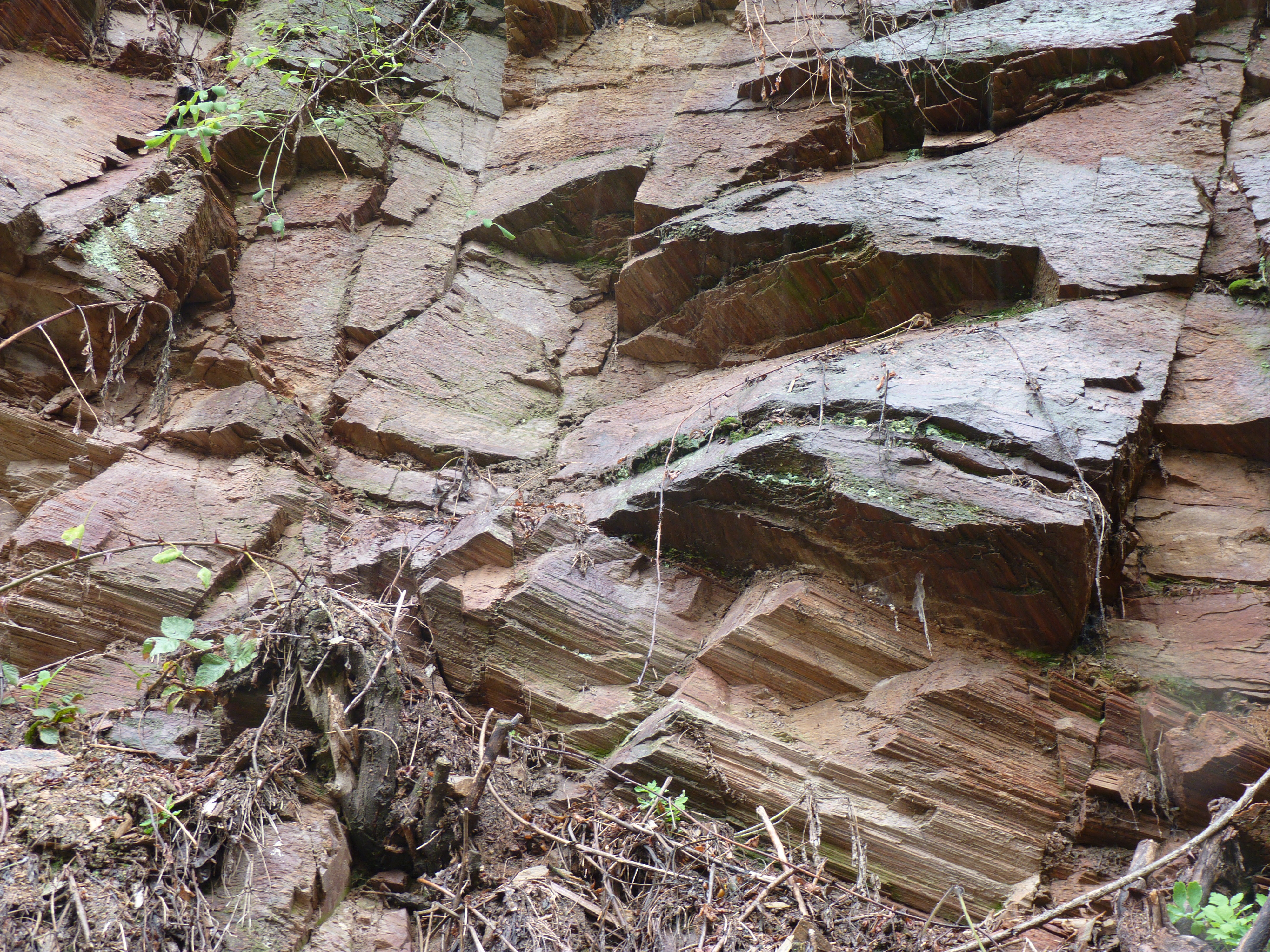 Natural monument Stébelnatá rula, Kolín District, Czech Republic